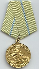 USSR Medal "Defense of Odessa" From Hebrew Wikipedia: [1]